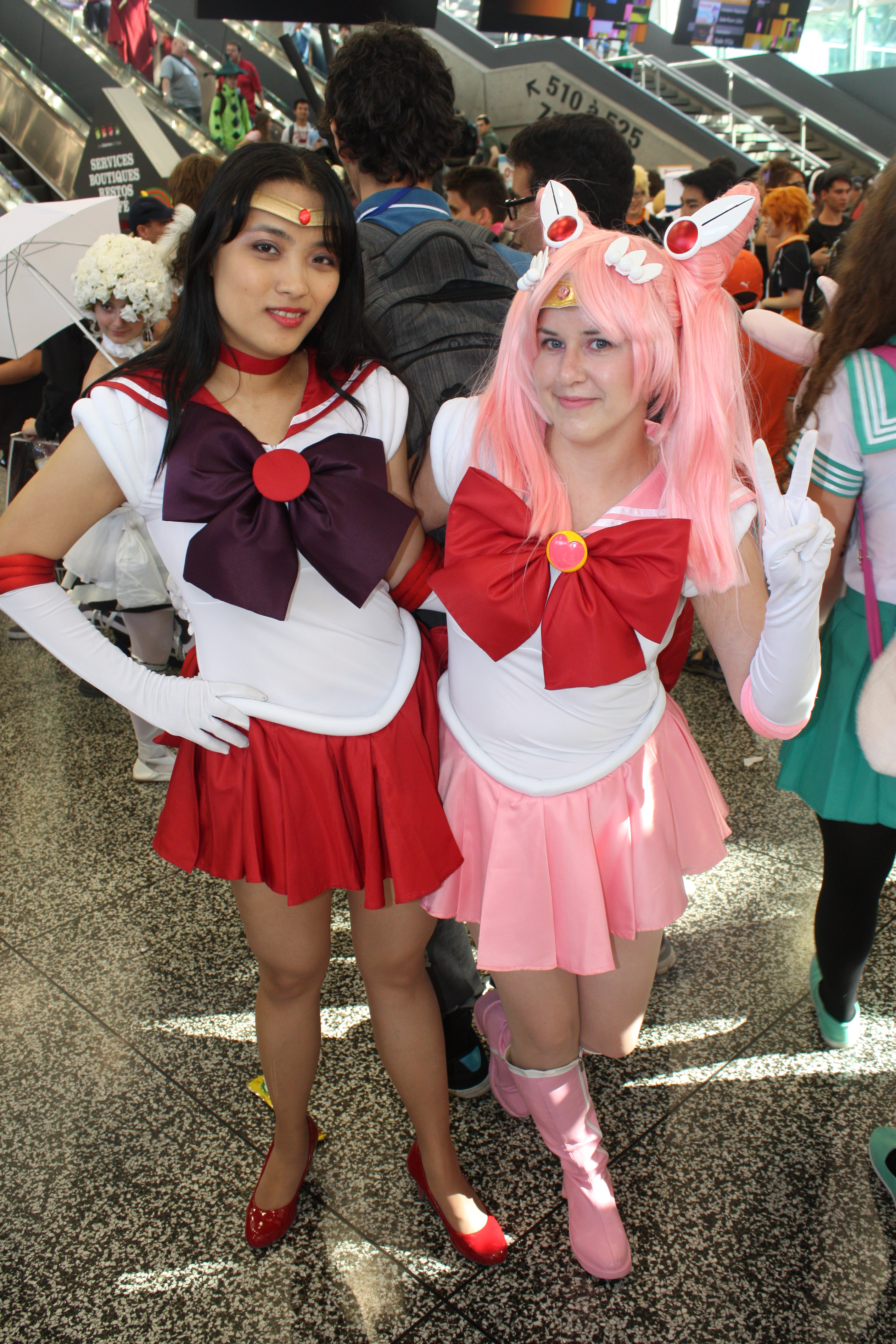 Otakuthon 2014: Sailor Mars and Sailor Chibi Moon